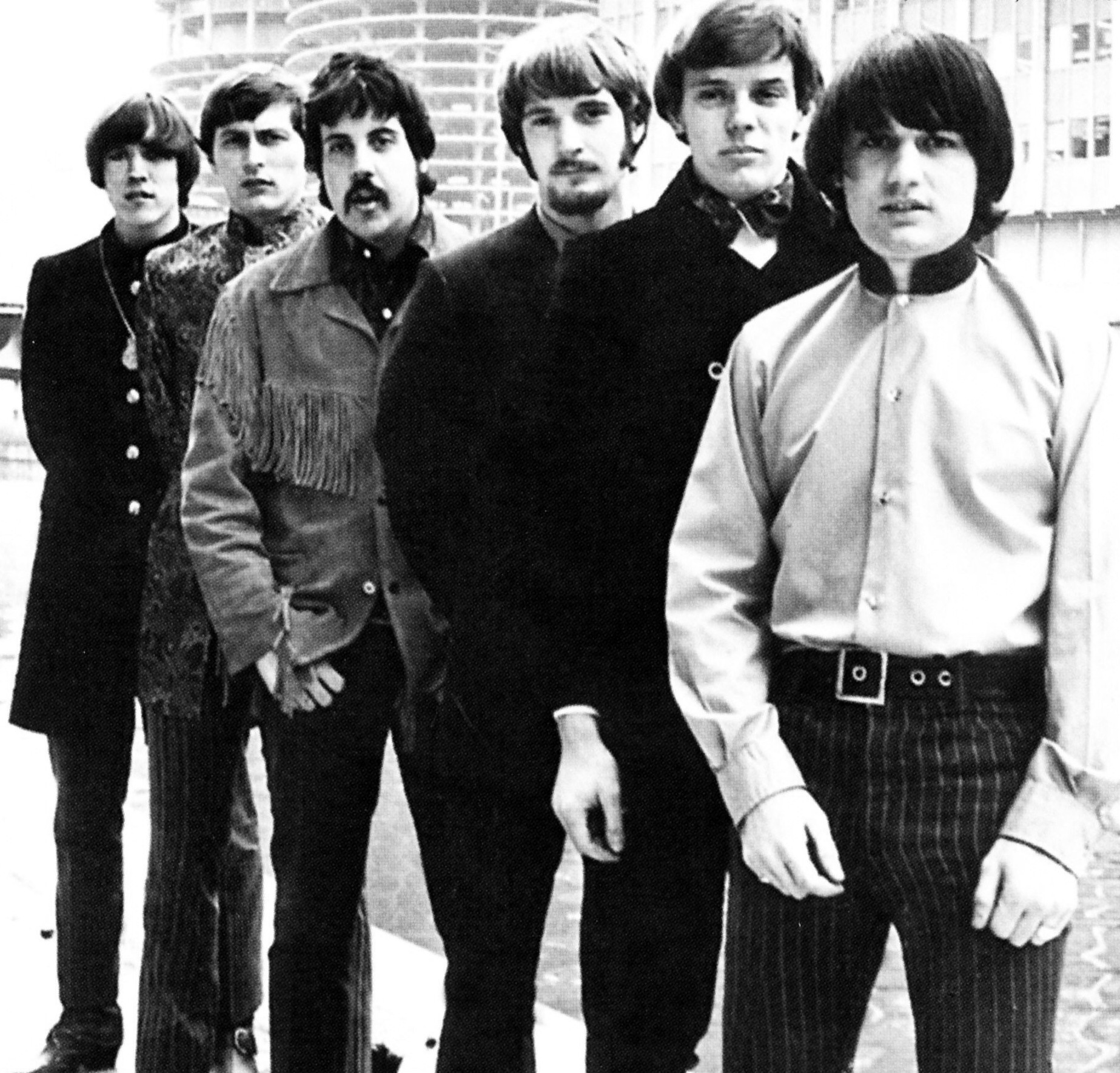 Photo of the rock group The New Colony Six. From left-Gerry Von Kollenberg, Ray Graffia, Jr., Ronnie Rice, Pat McBride, Chic James and Les Stewart.